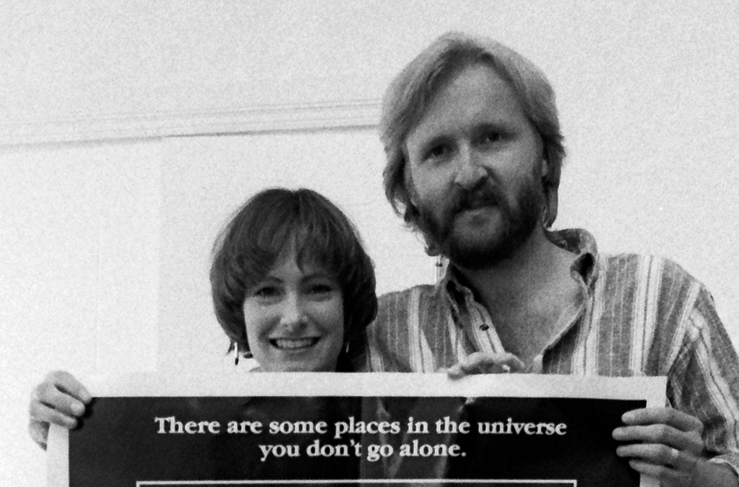 Aliens Producer Gale Anne Hurd and Writer/Director James Cameron